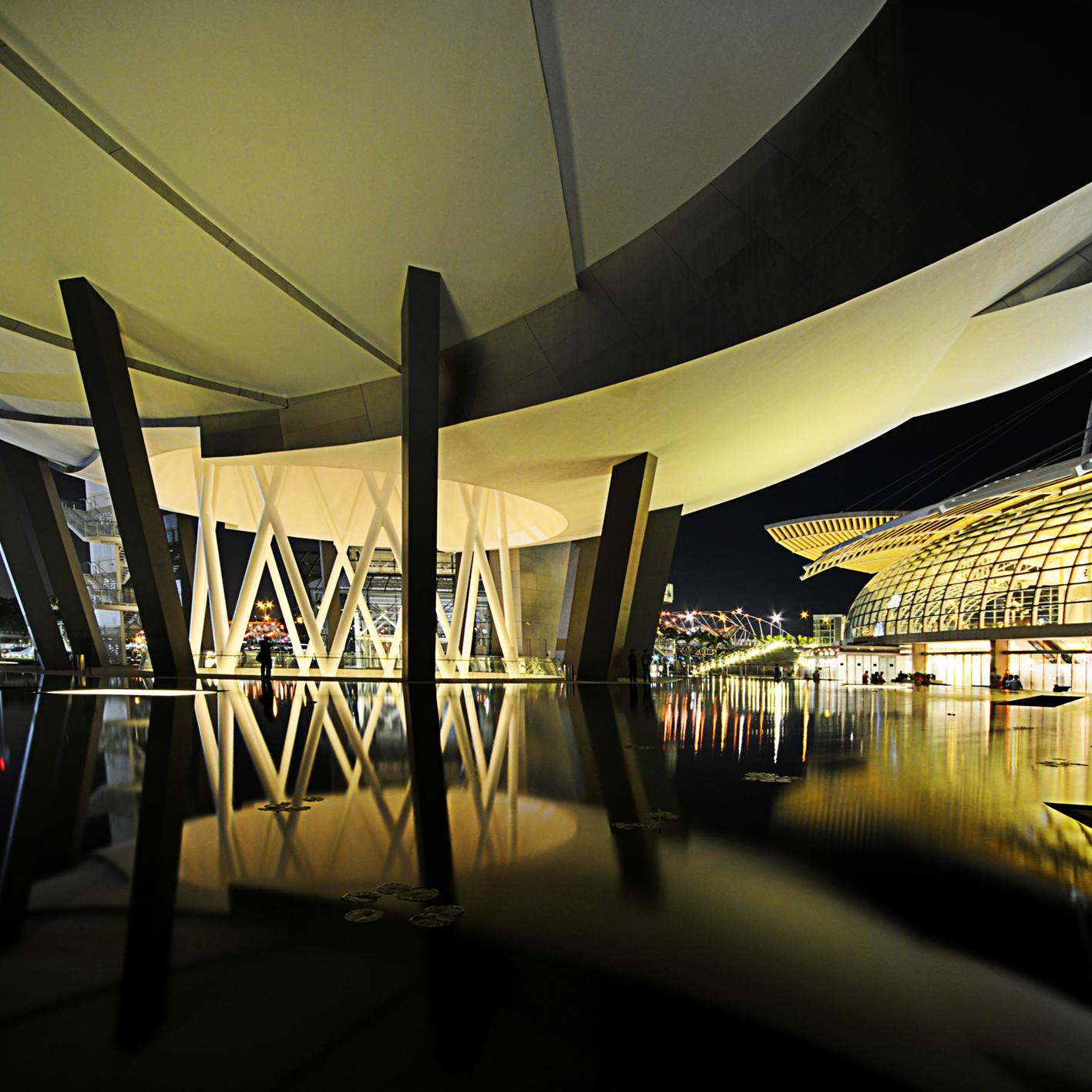 The ArtScience Museum opens... Embracing a spectrum of influences from art & science, to media & technology, to design & architecture, The ArtScience Museum features over 4,600 square meters of galleries to inspire visitors of all ages, walks of life and from shores near and far. View the Slideshow on ArtScience Museum A closer view by night... pp: 2 bracketed images blending only with "soft light" on layers.